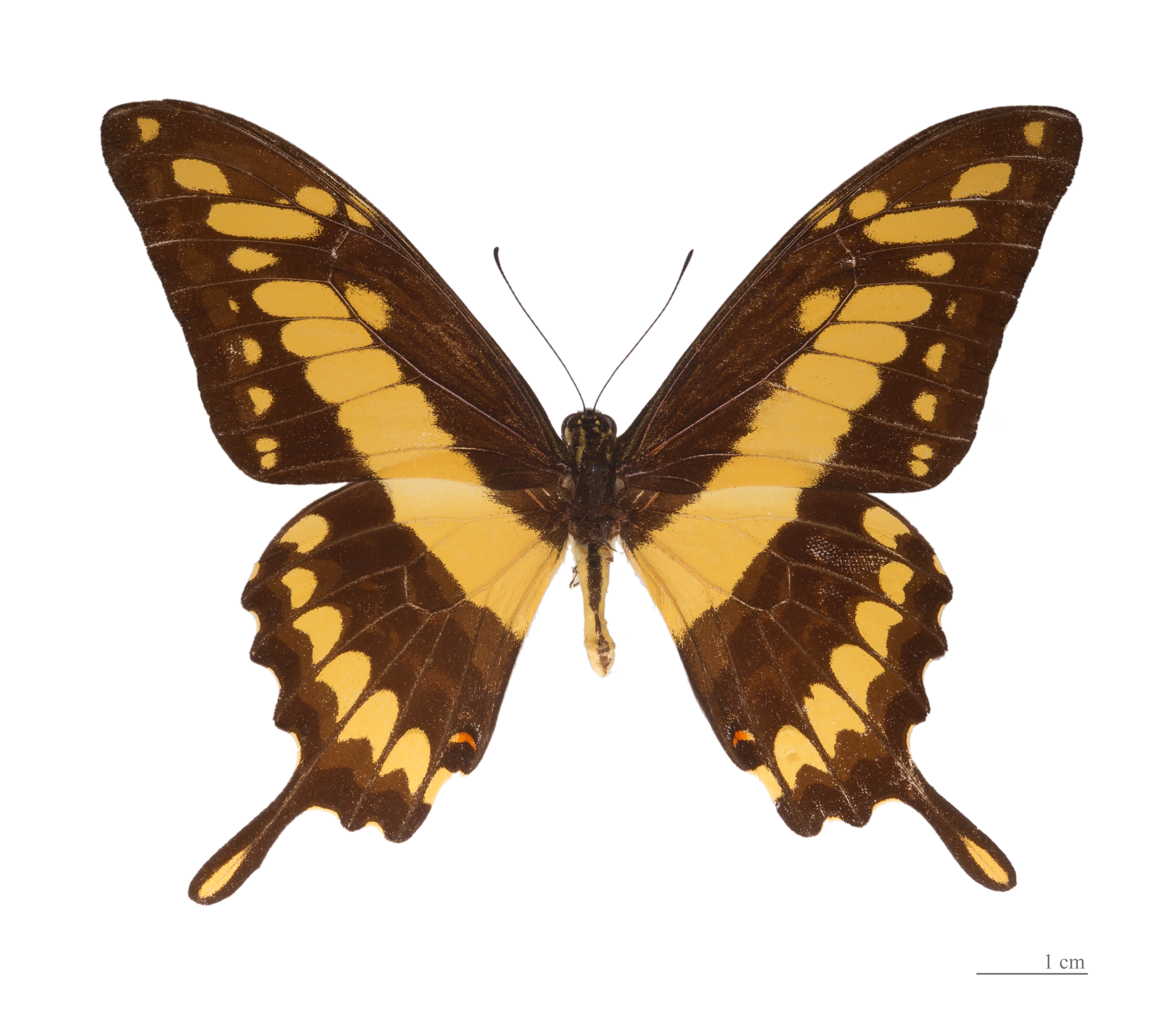 ♂ - Dorsal side Locality: Sentier du Rorota Cayenne, French Guianna.